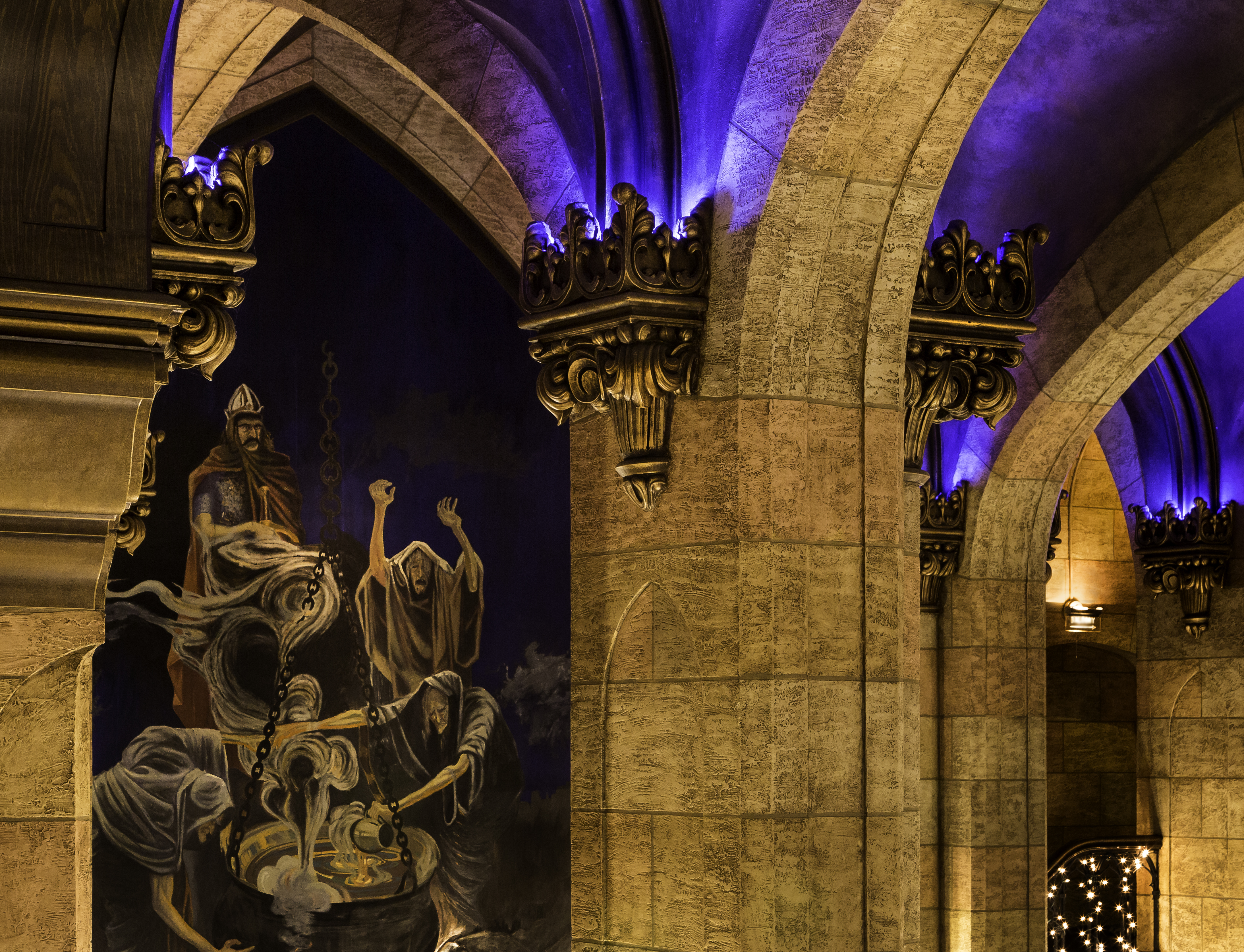 Macbeth mural at the historic Elsinore Theatre in Salem, Oregon. The lobby was built in 1926 to resemble the castle from Shakespeare's Hamlet.